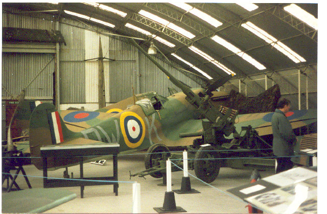 Thanks to The Few. Inside the Battle of Britain Museum at Hawkinge. This shows a replica Spitfire used in the 1969 file "Battle of Britain". Any proceeds from usage of this image to be directed to the Museum. Thank you.